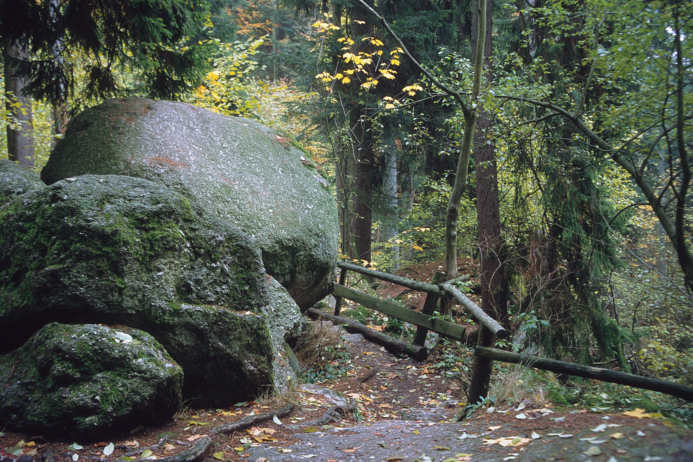 Granite boulder in the Ysperklamm gorge in the Waldviertel, Lower Austria